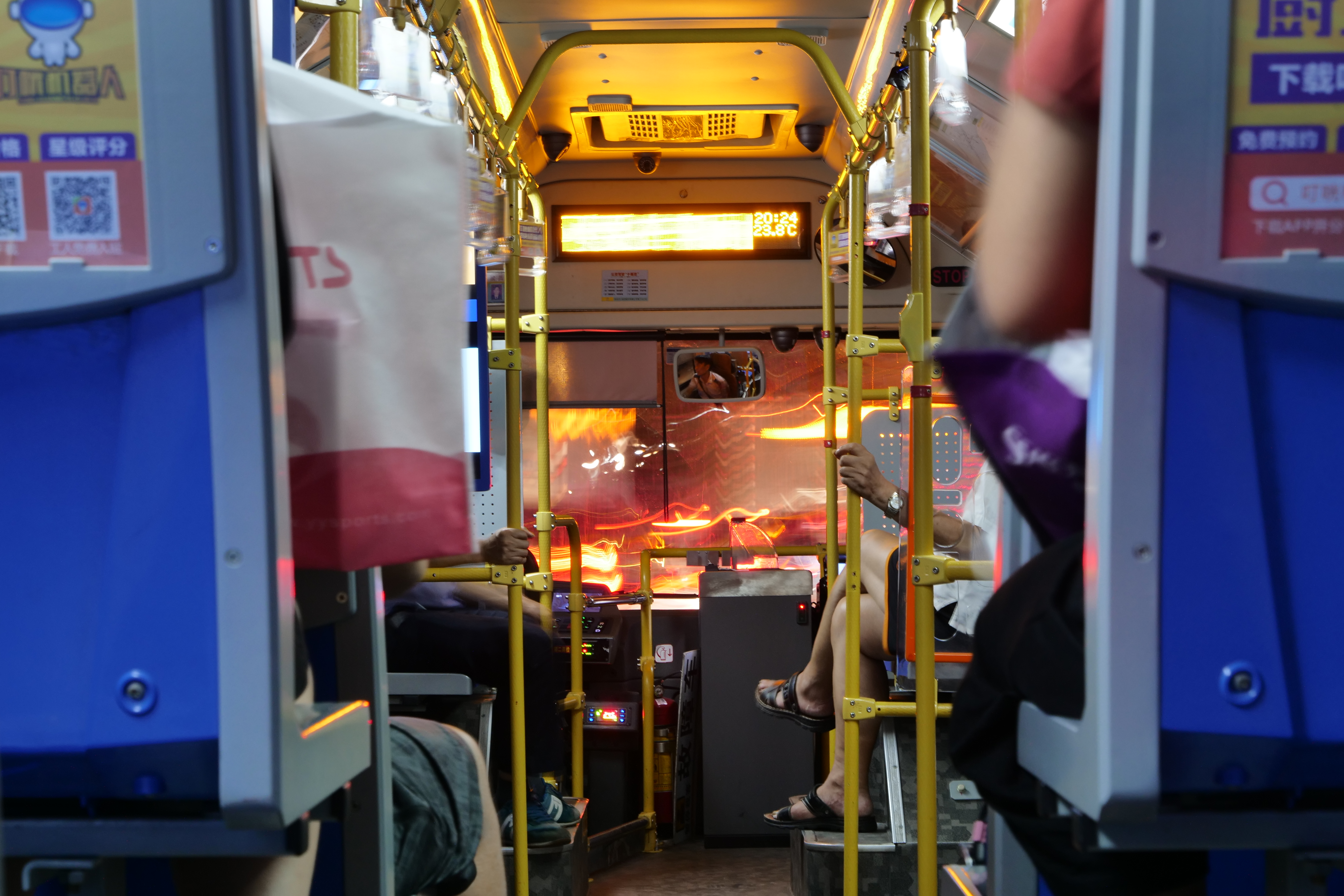 Interior of Shenzhen Bus M206